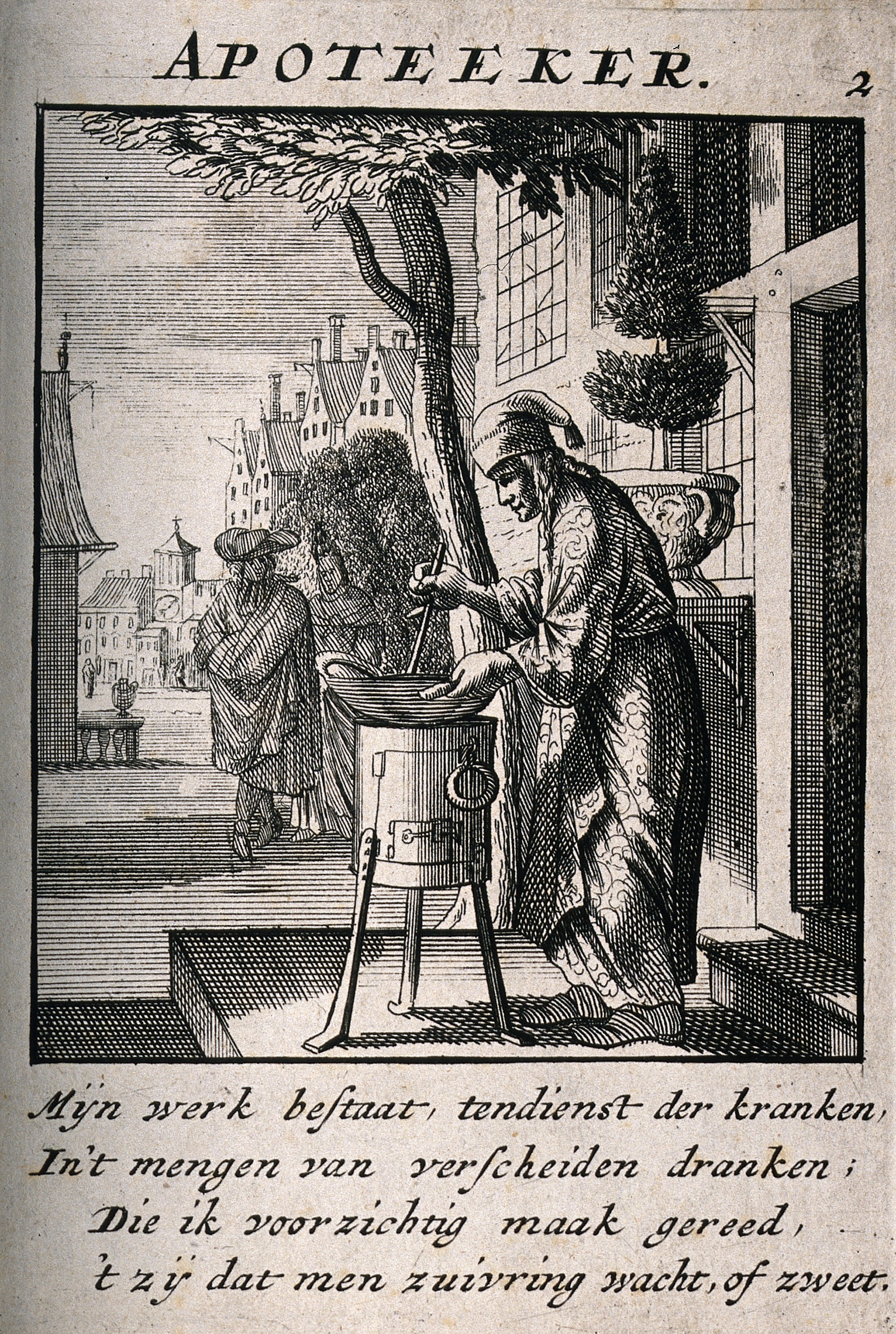 An apothecary making a concoction in the street outside his workshop. Etching. Iconographic Collections